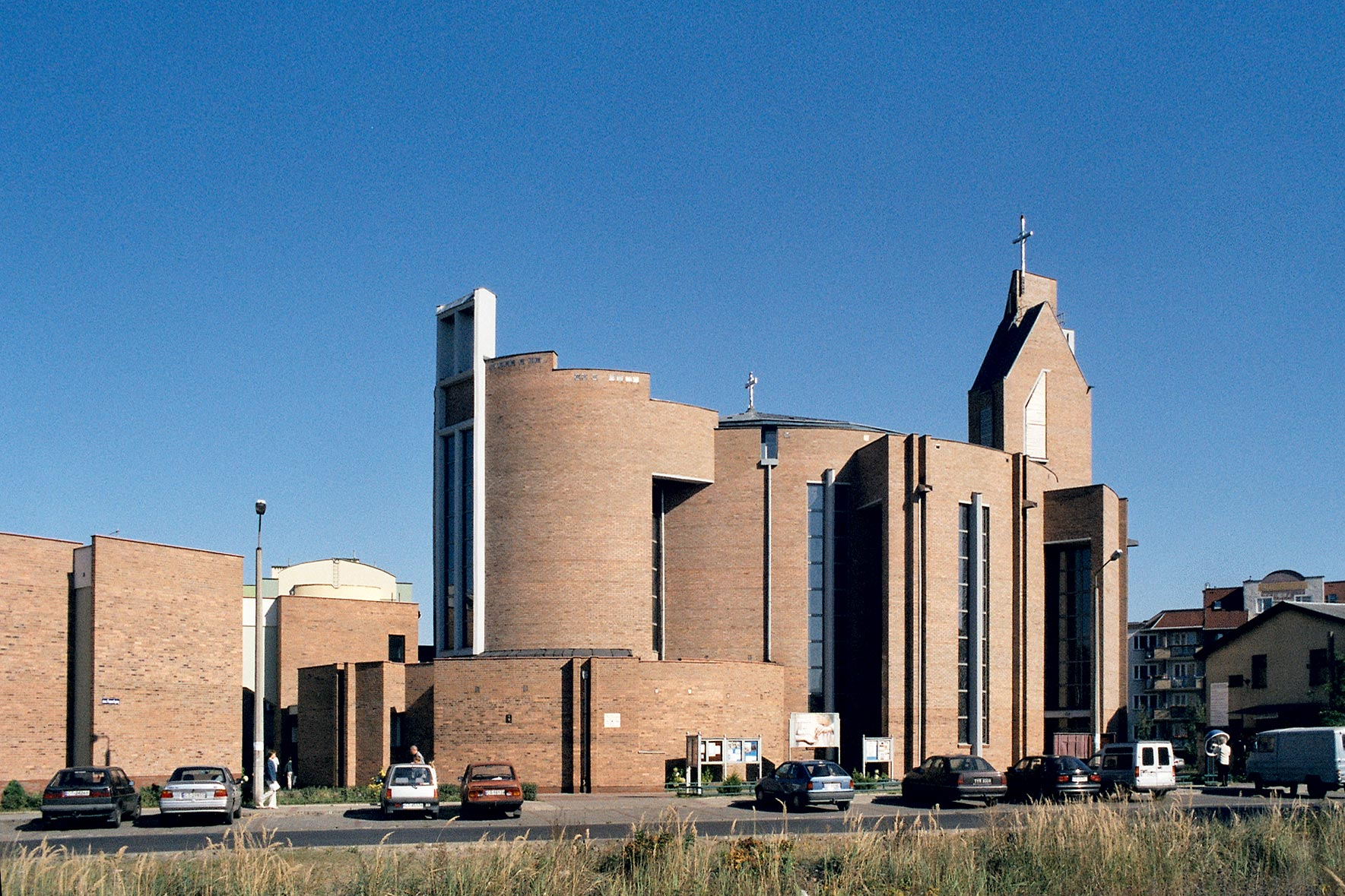 Toryń-Koniuchy, church of the Divine Mercy and St. Faustina